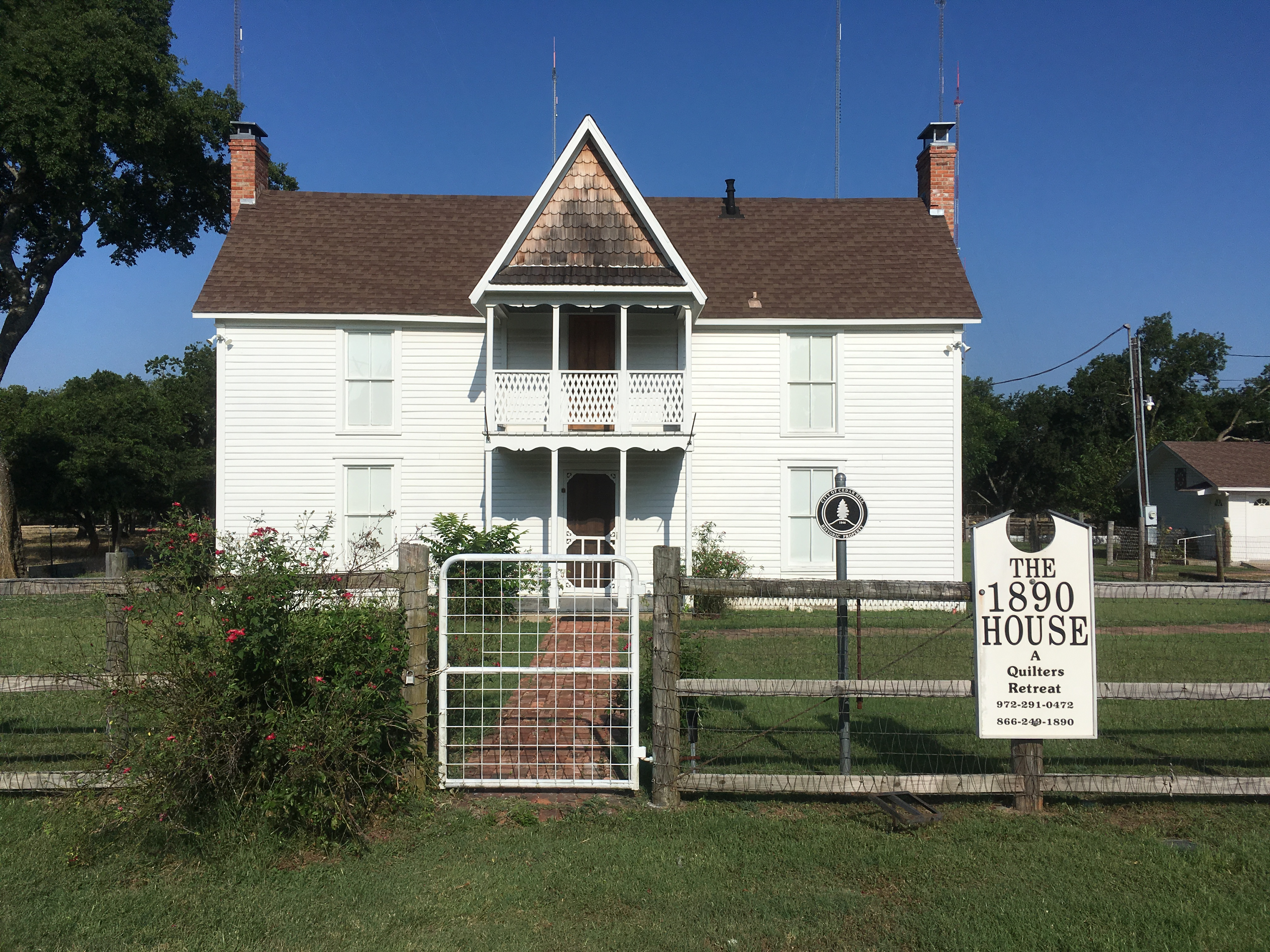 It is classified as a "Historic Property" by the city of Cedar Hill". It is used for sewing groups, and also retreats and meetings. Website for the house